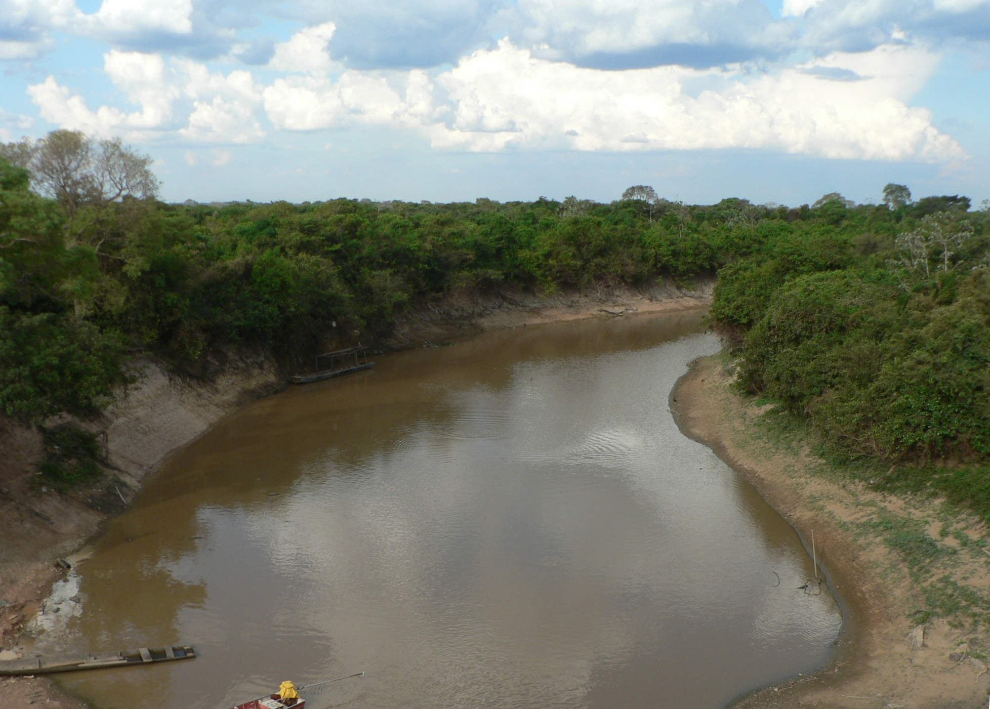 The Río Yata seen from the bridge in Ponton Santa Teresa del Yata, Beni, Bolivia. (2014)